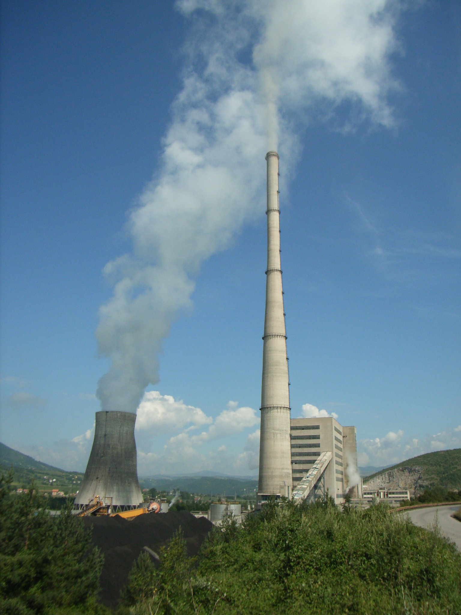 Power station near Plevlja, Montenegro